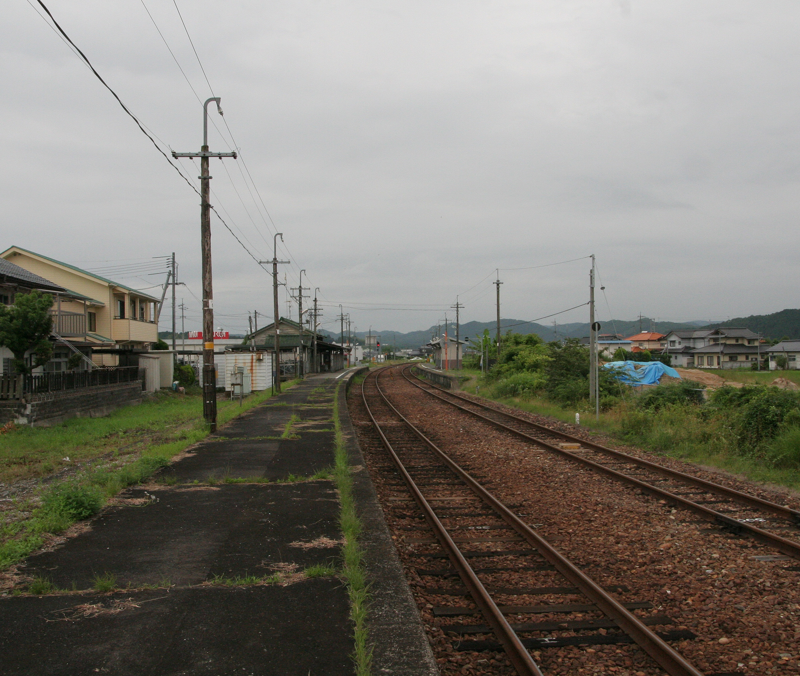 West Japan Railway Company Kishin Line katsumada sta enclosure